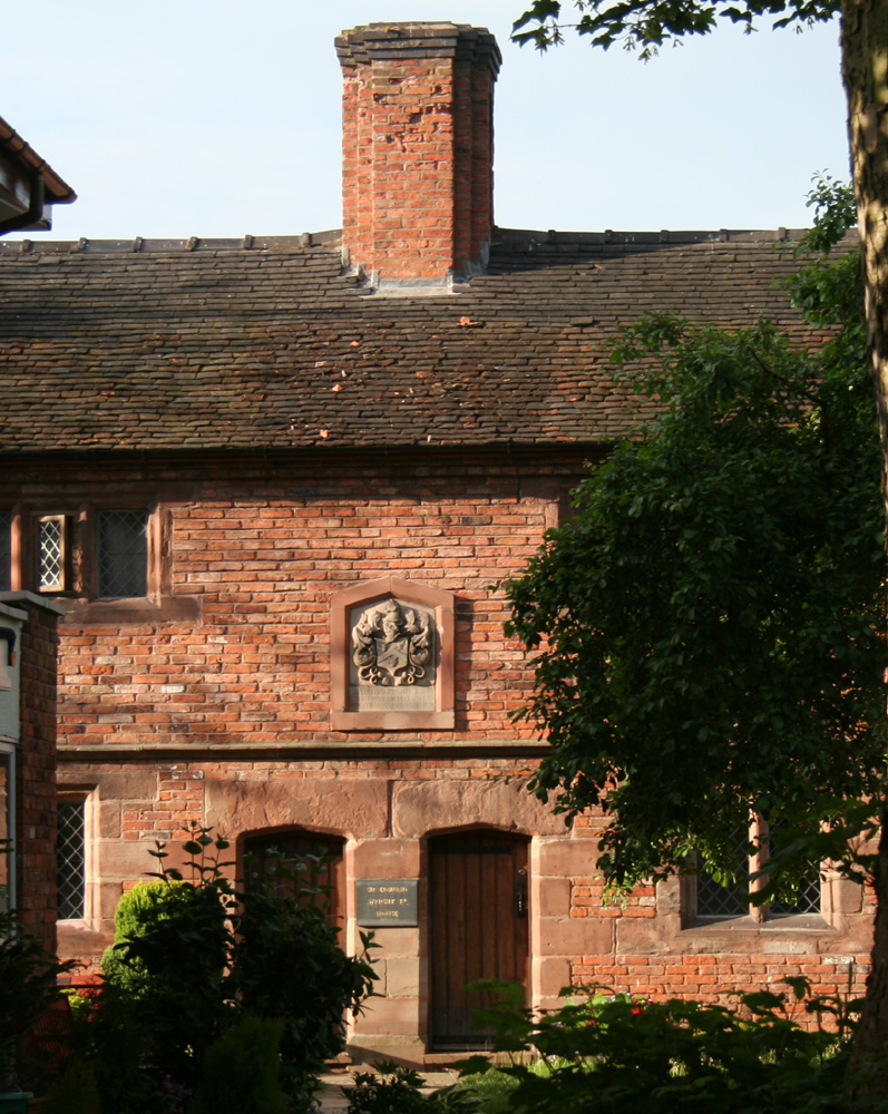 Wright's Almshouses, Nantwich, Cheshire; now on Beam Street, formerly on London Road